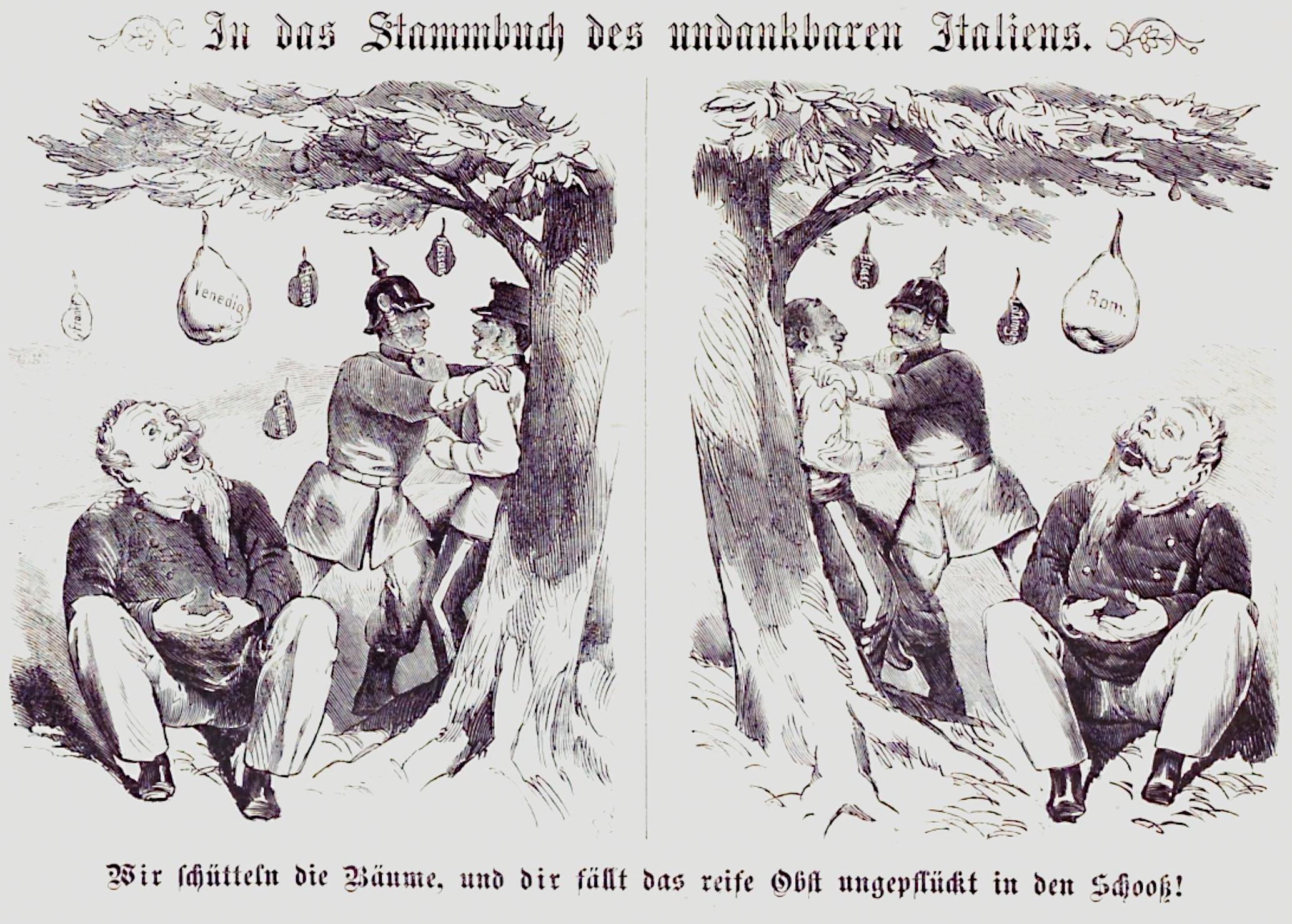 Karikatur, Kladderadatsch